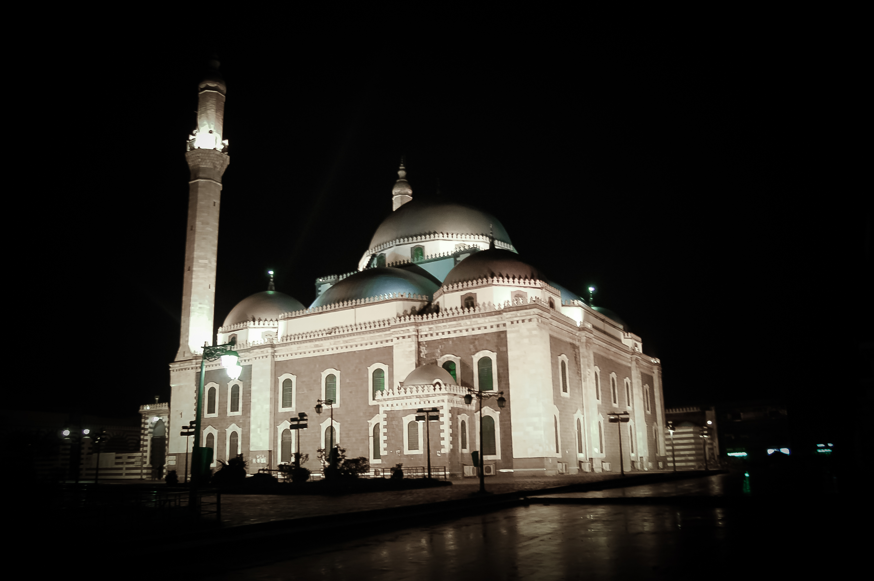 Khalid ibn al-Walid mosque is located in the Khaldiya district of Homs, the third largest city in Syria. It is situated in a park alongside Hama Street about 500 metres (1,600 ft) north of Shoukri al-Quwatli Street. Designed by Turkish architect Türk mimar Abdullah bin Alaaddin Olsun, the mosque construction was completed in 1912.